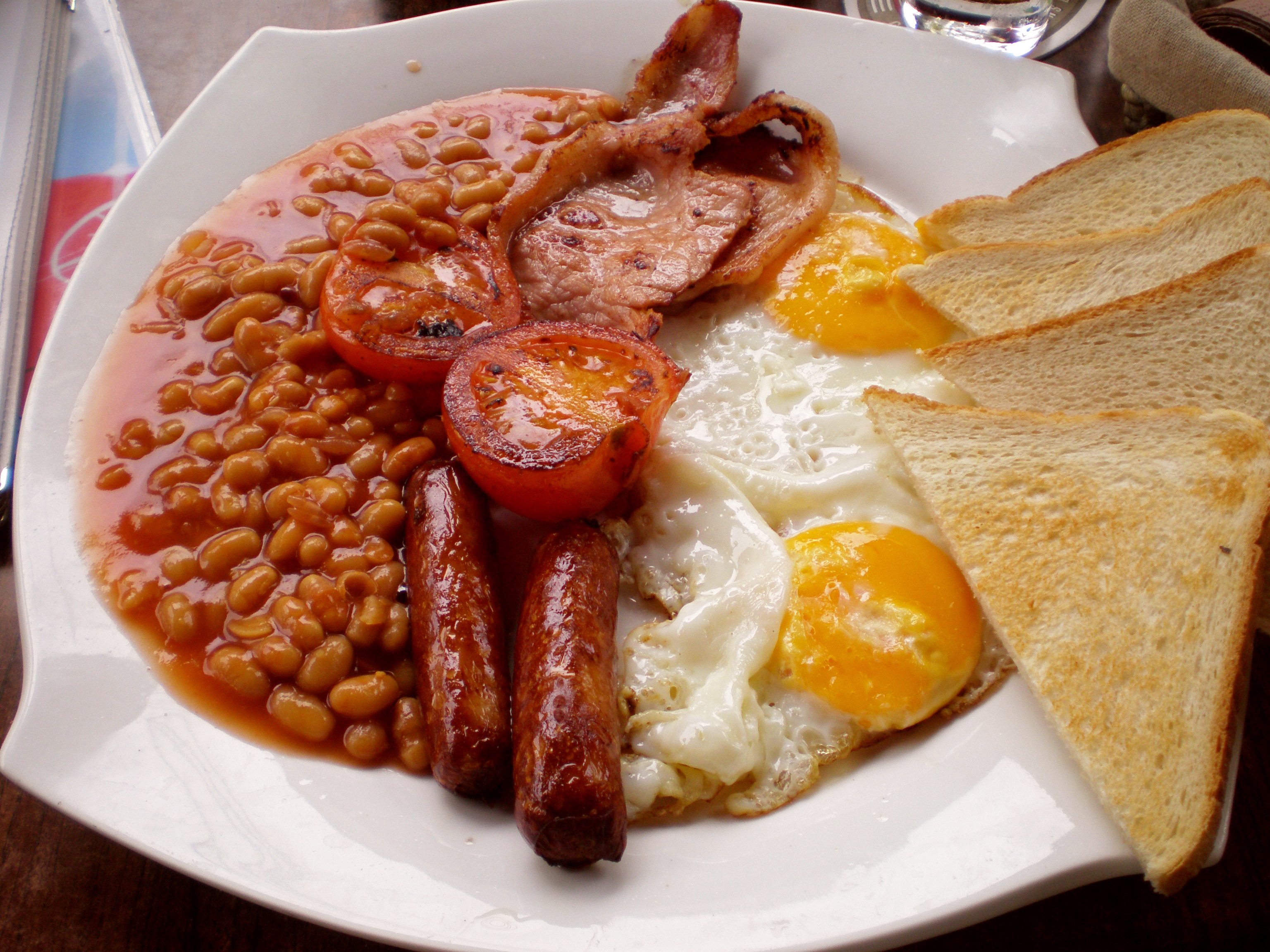 English breakfast